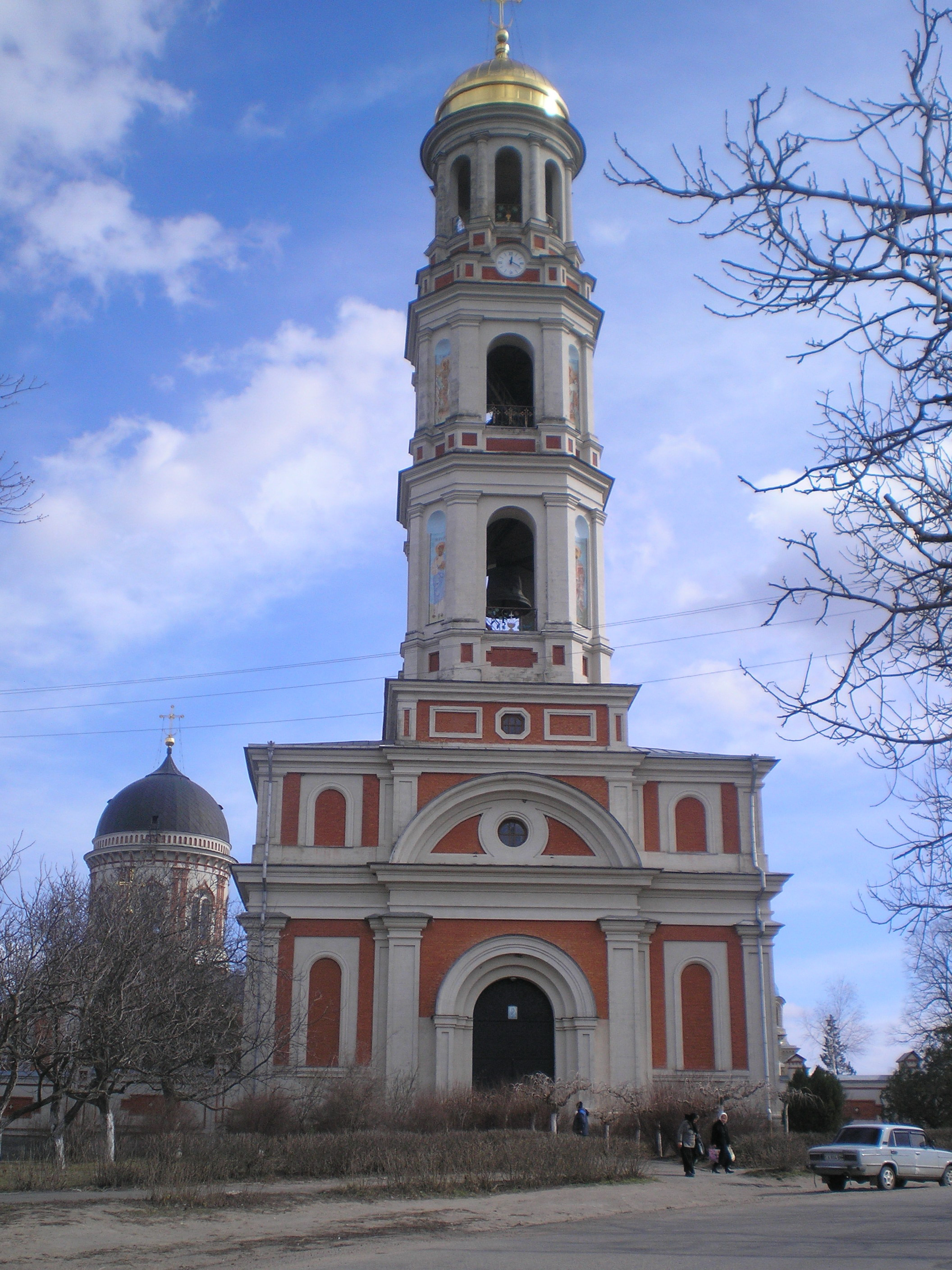 Kitskany monastery, Transnistria